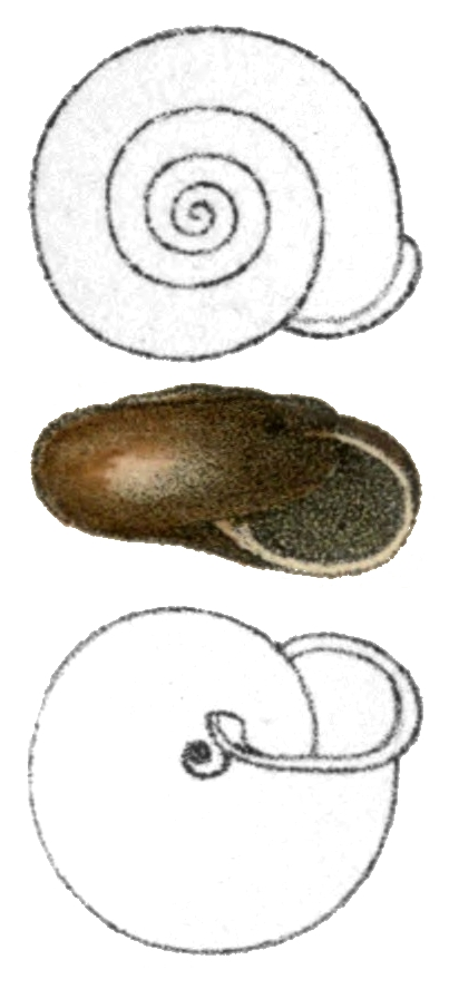 Drawing of shells of Norelona pyrenaica